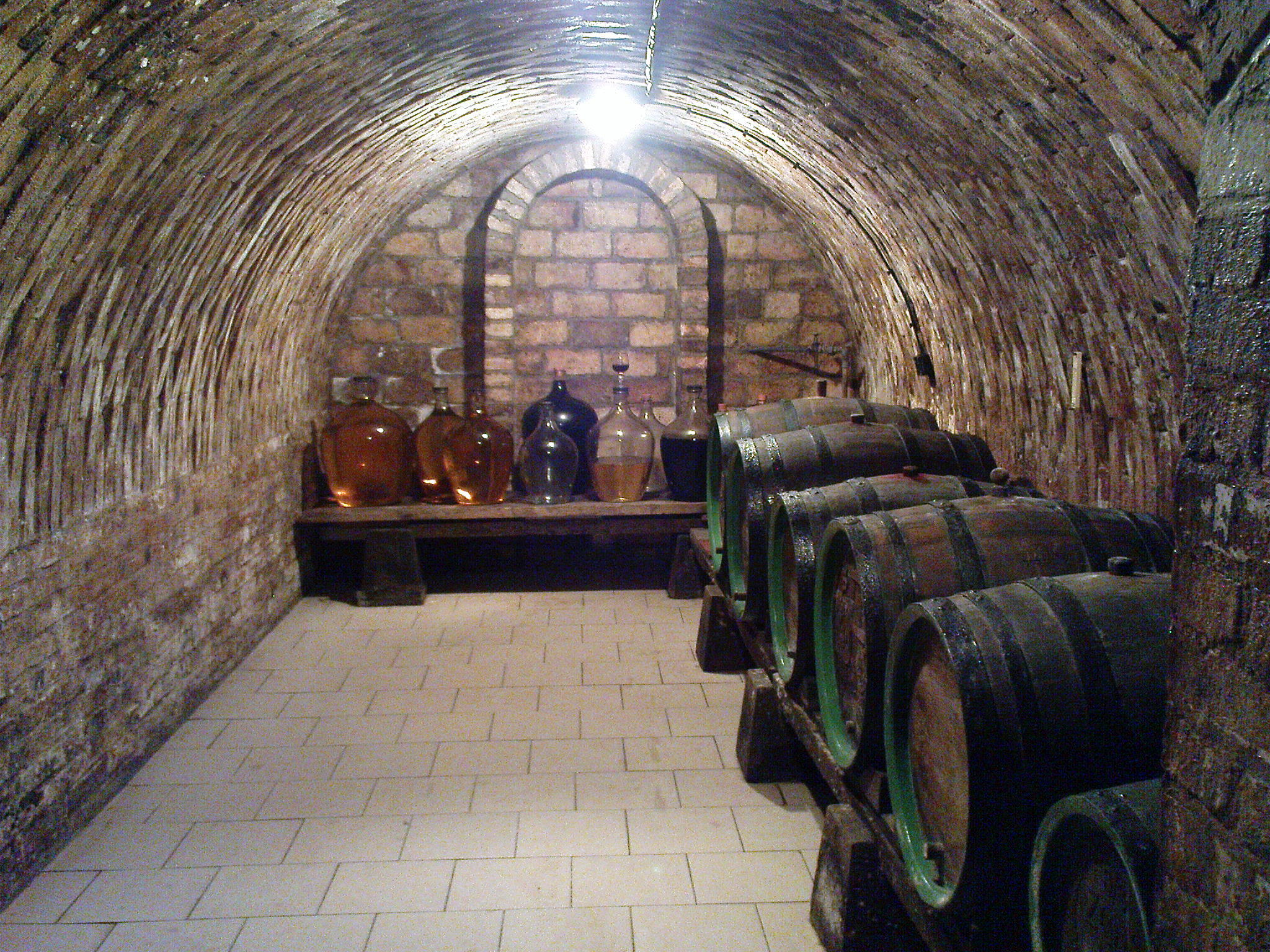 cellars